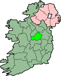 map of County Westmeath, Ireland 08:09, 5 February 2004 Morwen 200x249 (30700 bytes) (map)